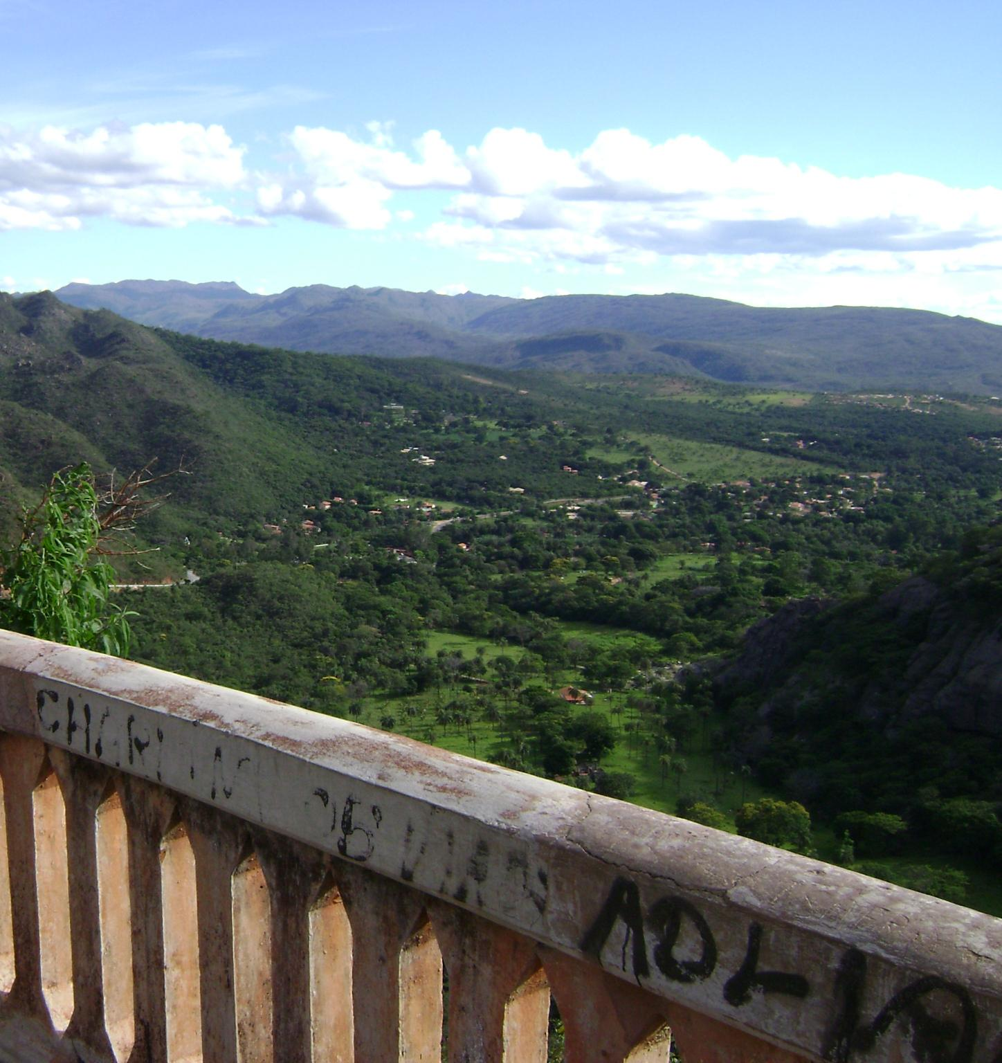 Estrada para Conceição do Mato Dentro